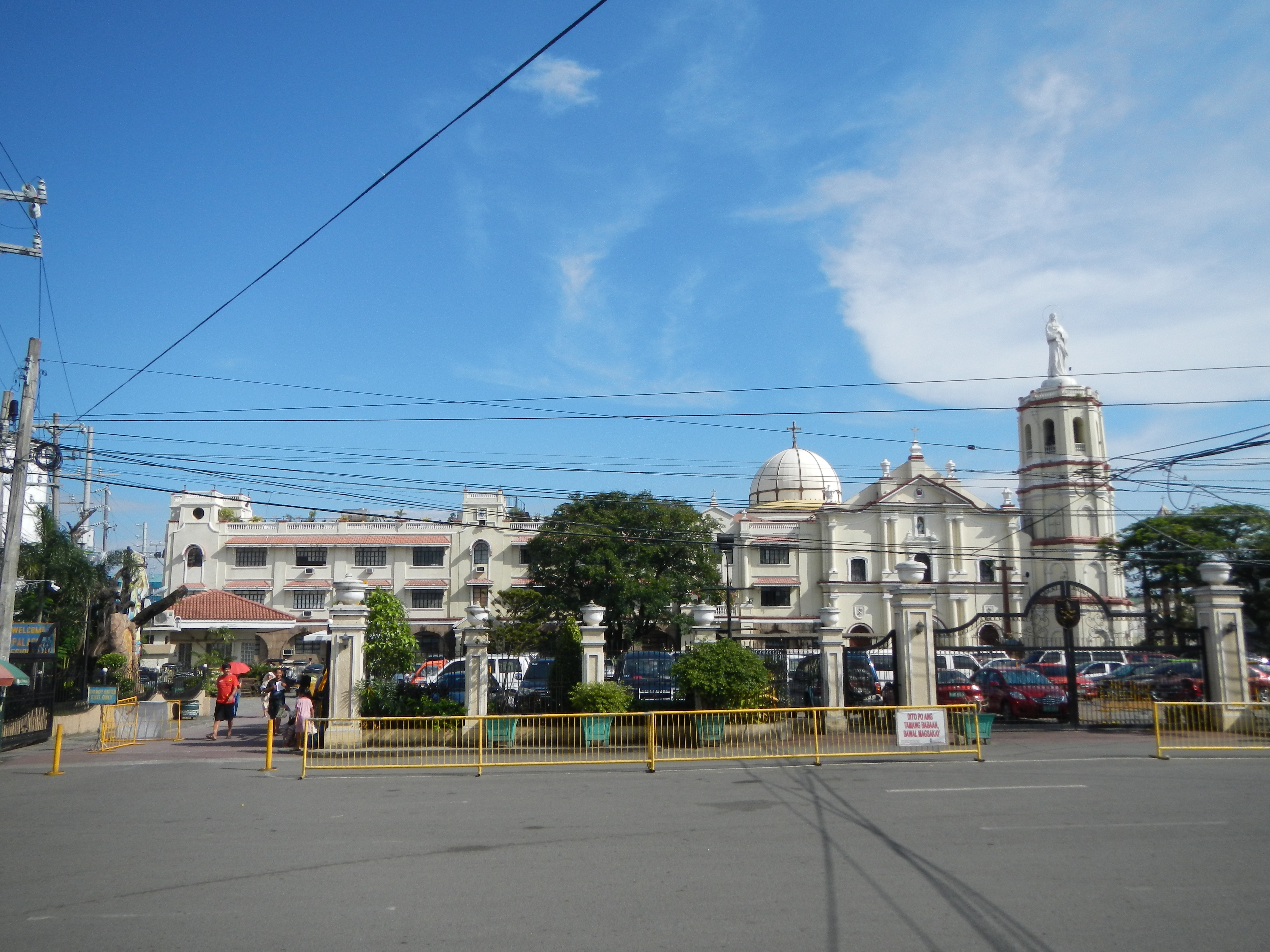 The Malolos City Hall including its Marcelo H. del Pilar Monument, Memorial, in front of the Palacio Predential, Malolos Cathedral, its 10 Commandments statue, Francisco Balagtas monument (Malolos City), in front of Casa Real Shrine, Casa Real, Malolos located at Paseo del Congreso, Plaza Rizal, Malolos City, Bulacan Barangay San Vicente, Malolos City, Bulacan beside Barangay Caingin, Malolos City, Bulacan built in 1580, surrounded by the creek under the 1926 A.D. historic Malolos Bridge in Cetro, Bayan.